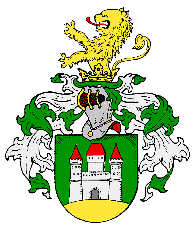 Coat of arms of the House of Amsberg.